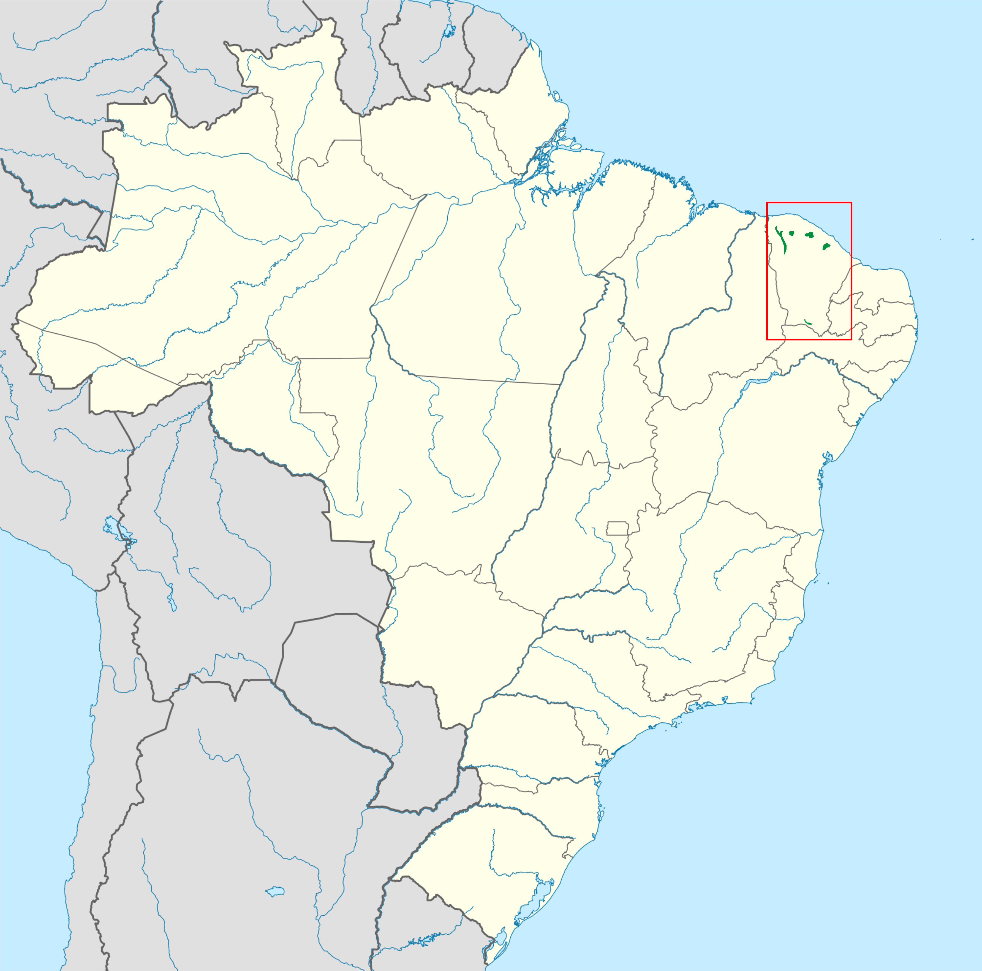 Approximate area of the Caatinga enclaves moist forests ecoregion — of the Atlantic Forest biome. As delineated by WWF — in Ceará and other states, Brazil.